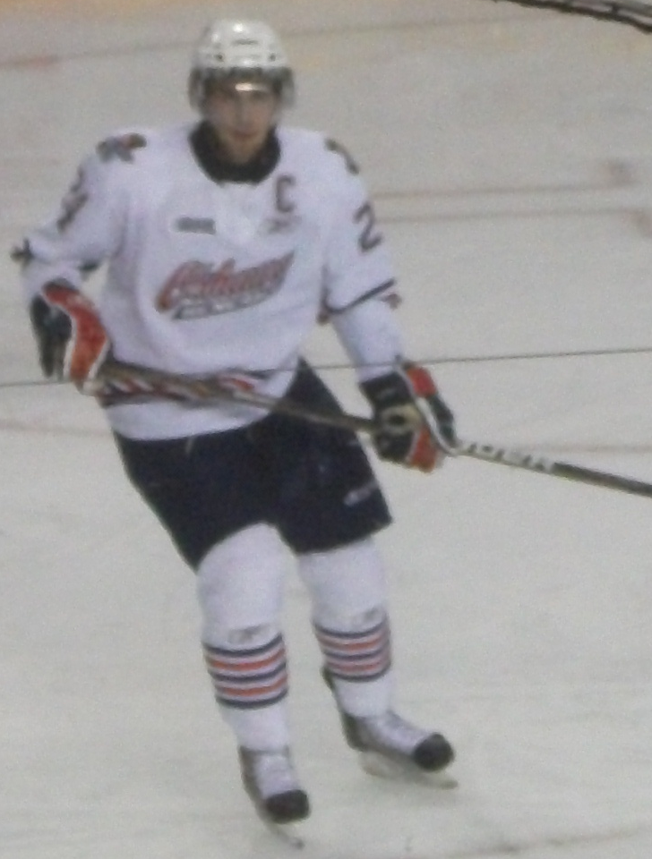 Summary: Calvin de Haan